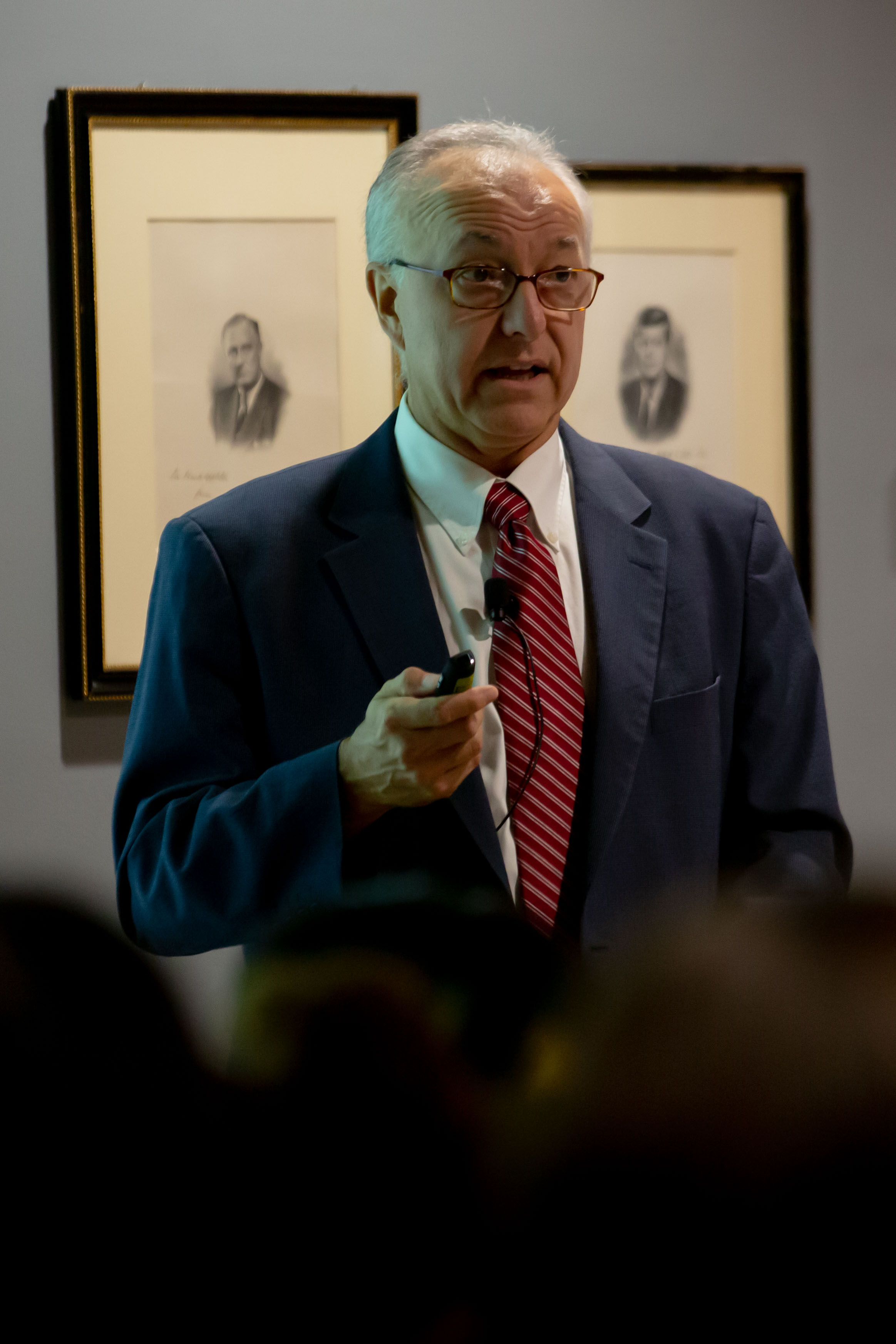 Public Lecture with Dean George Q. Daley at the Edmond J. Safra Center for Ethics